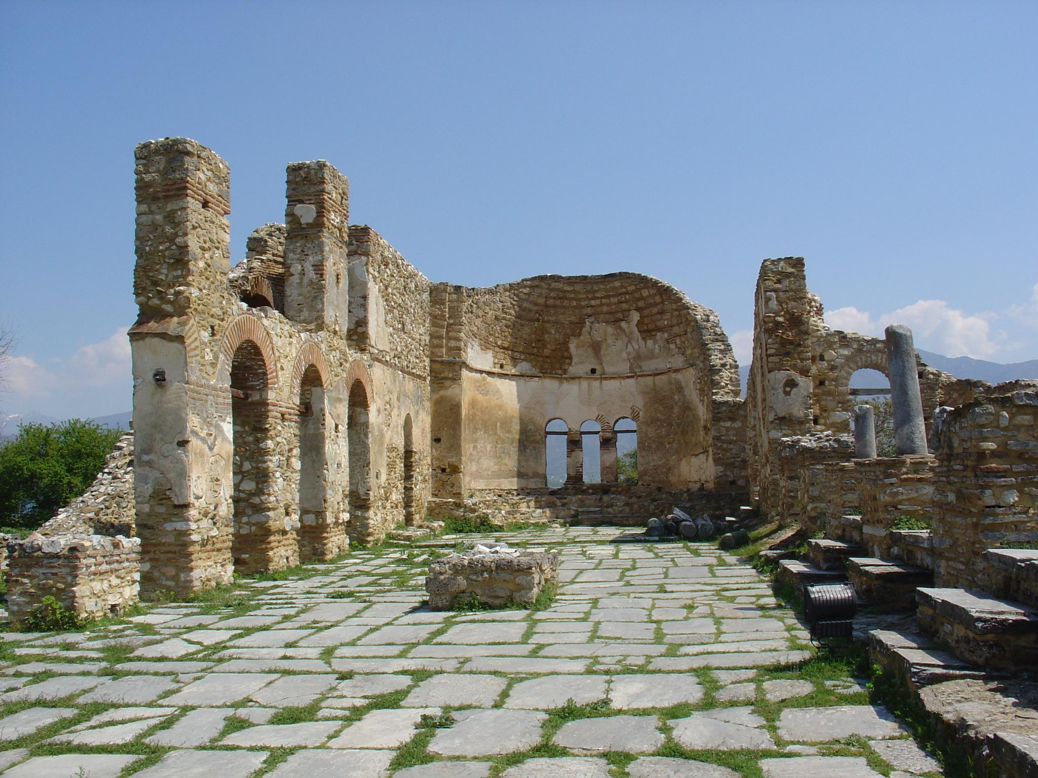 The Remainings of the Basilica of Agios Achillius (10th century) at the Mikri Prespa Lake, Florina, Greece.